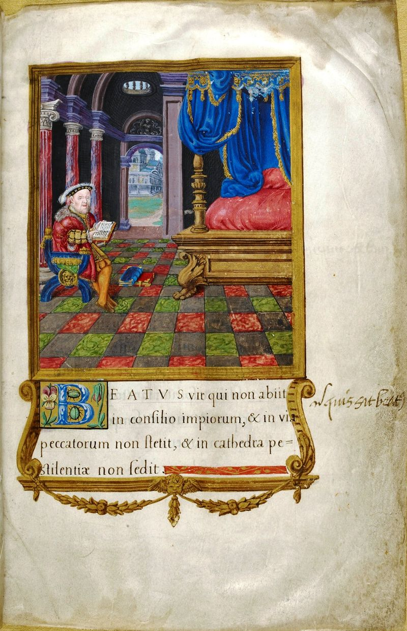 Miniature of Henry VIII praying in his bedchamber in a Psalter that he commissioned and annotated himself. Henry VIII’s Psalter, London, c. 1540, Royal 2 A. xvi, f. 3